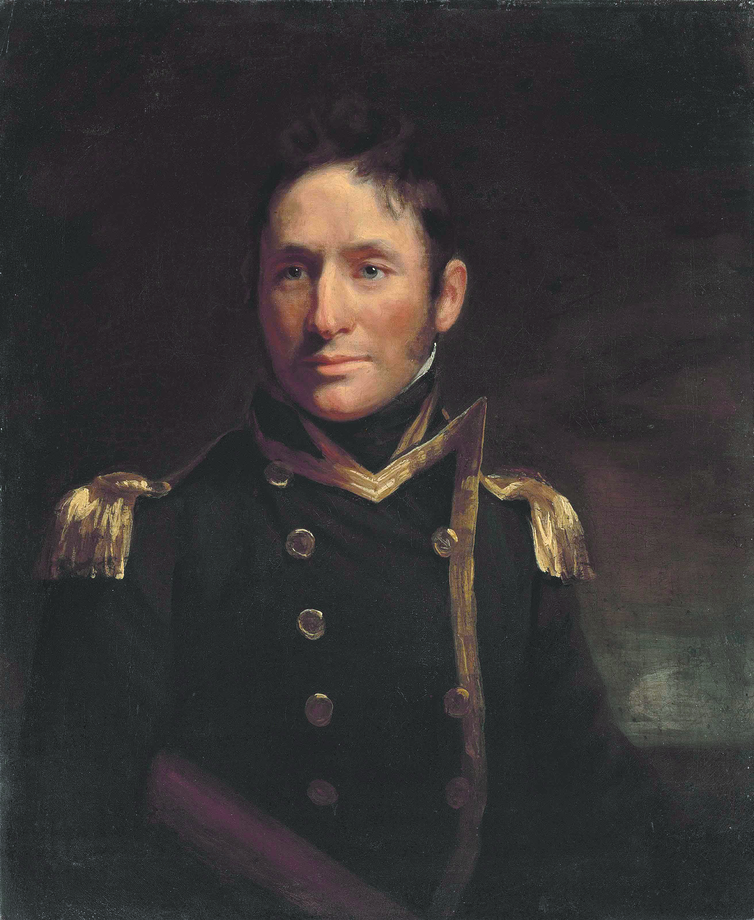 PORTRAIT OF CAPTAIN PHILIP BEAVER R.N (1766 - 1813) in naval full dress uniform, looking to the left. Oil on canvas. Size 30 x 25 inches see Philip Beaver